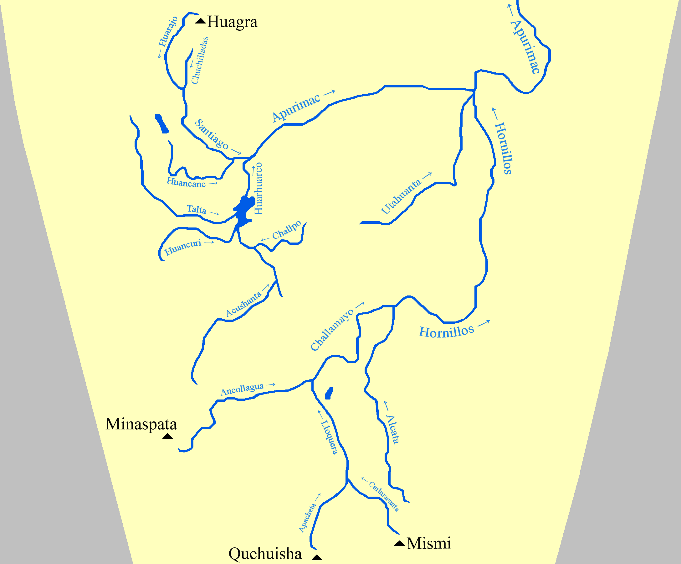 Headstreams of Apurimac River and Hornillos